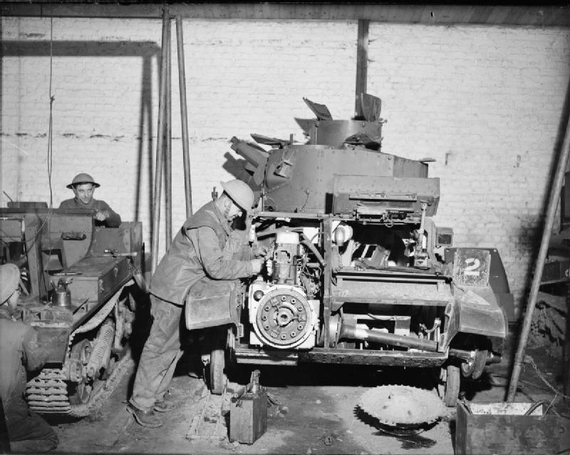 The British Army in France 1939-40 A Light Tank Mk VI undergoes repair work on its engine at a RASC vehicle workshop, 3 January 1940.